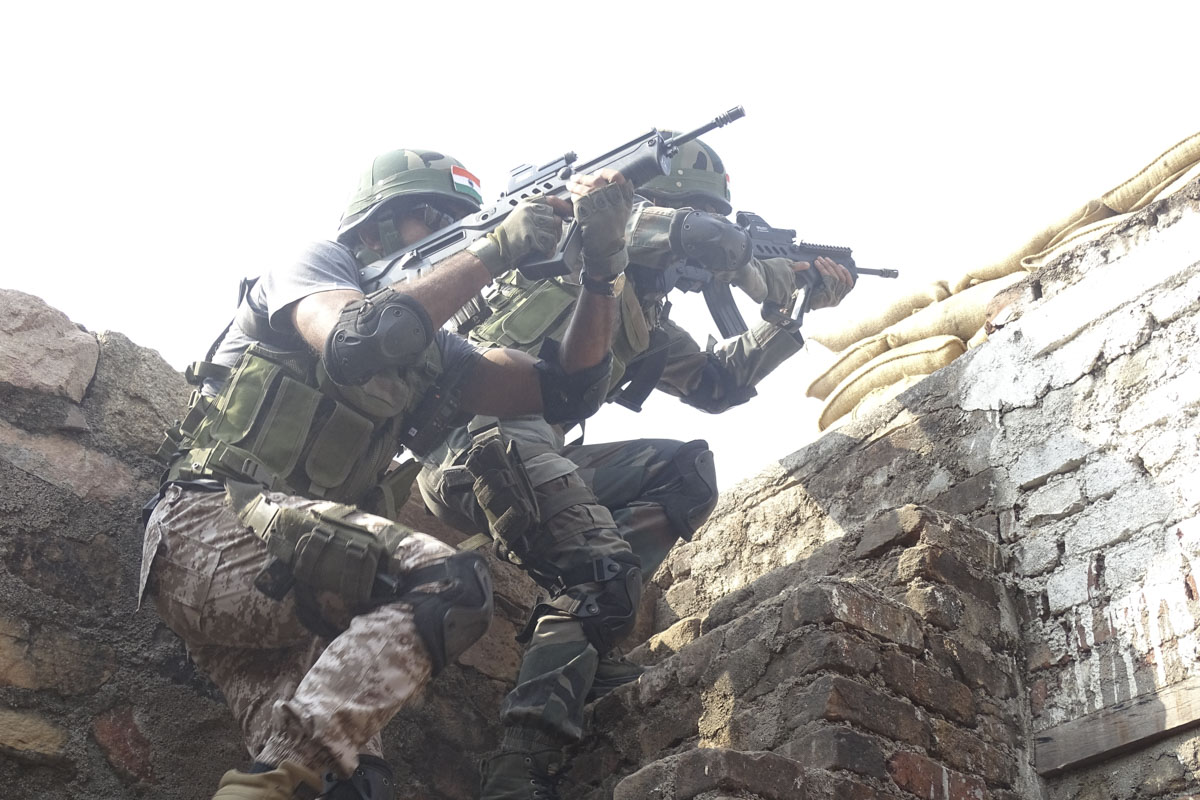 Indra 2018 military exercise.